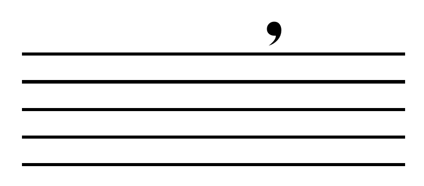 Music symbol, indicates a brief, silent pause, most often in choral works.